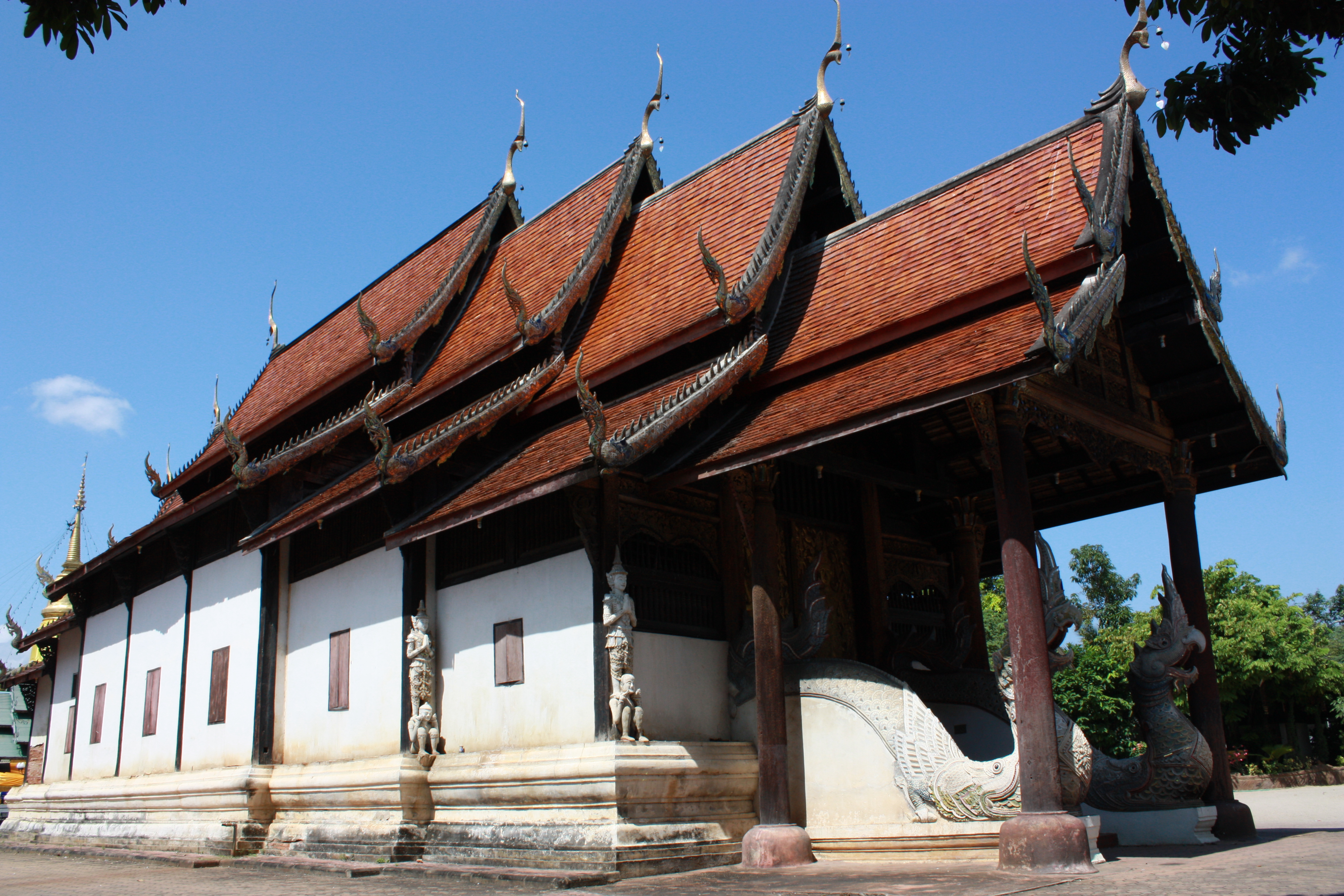 Wat Buak Khrok Luang, San Kamphaeng, Chiang Mai